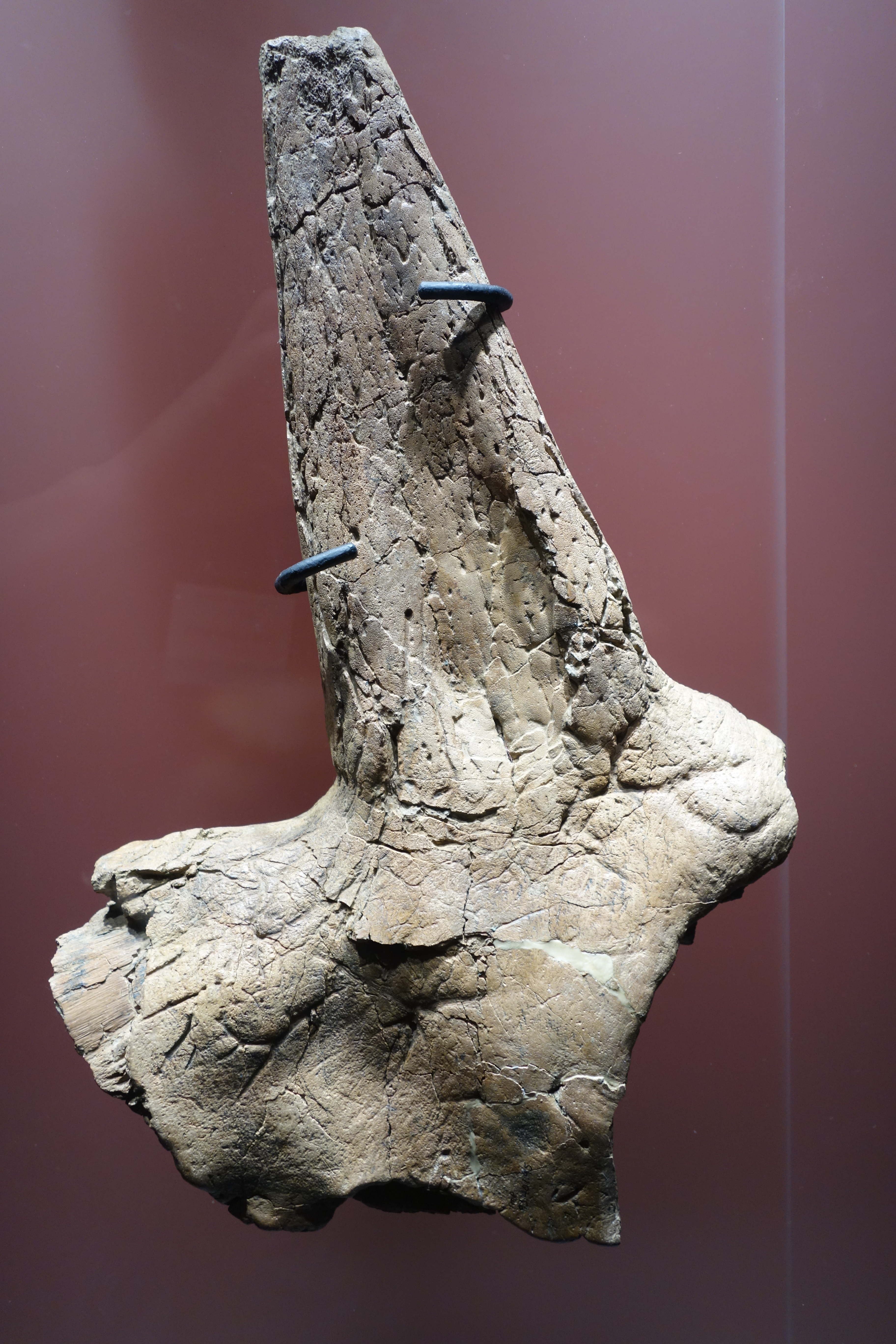 Horn core, Centrosaurus apertus (original). On display at the Royal Tyrrell Museum, Alberta, Canada.